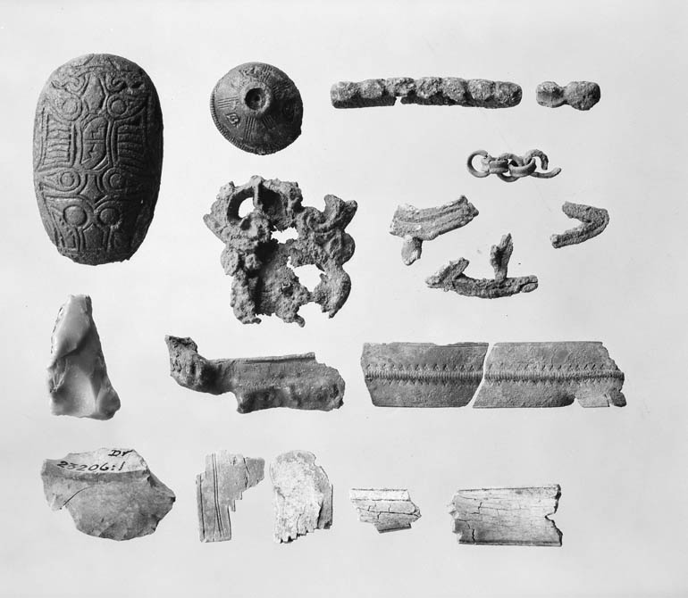 Artefacts found in one of the graves on Norra Bredsundsnäset by lake Horrmundsjön in Dalarna, Sweden.